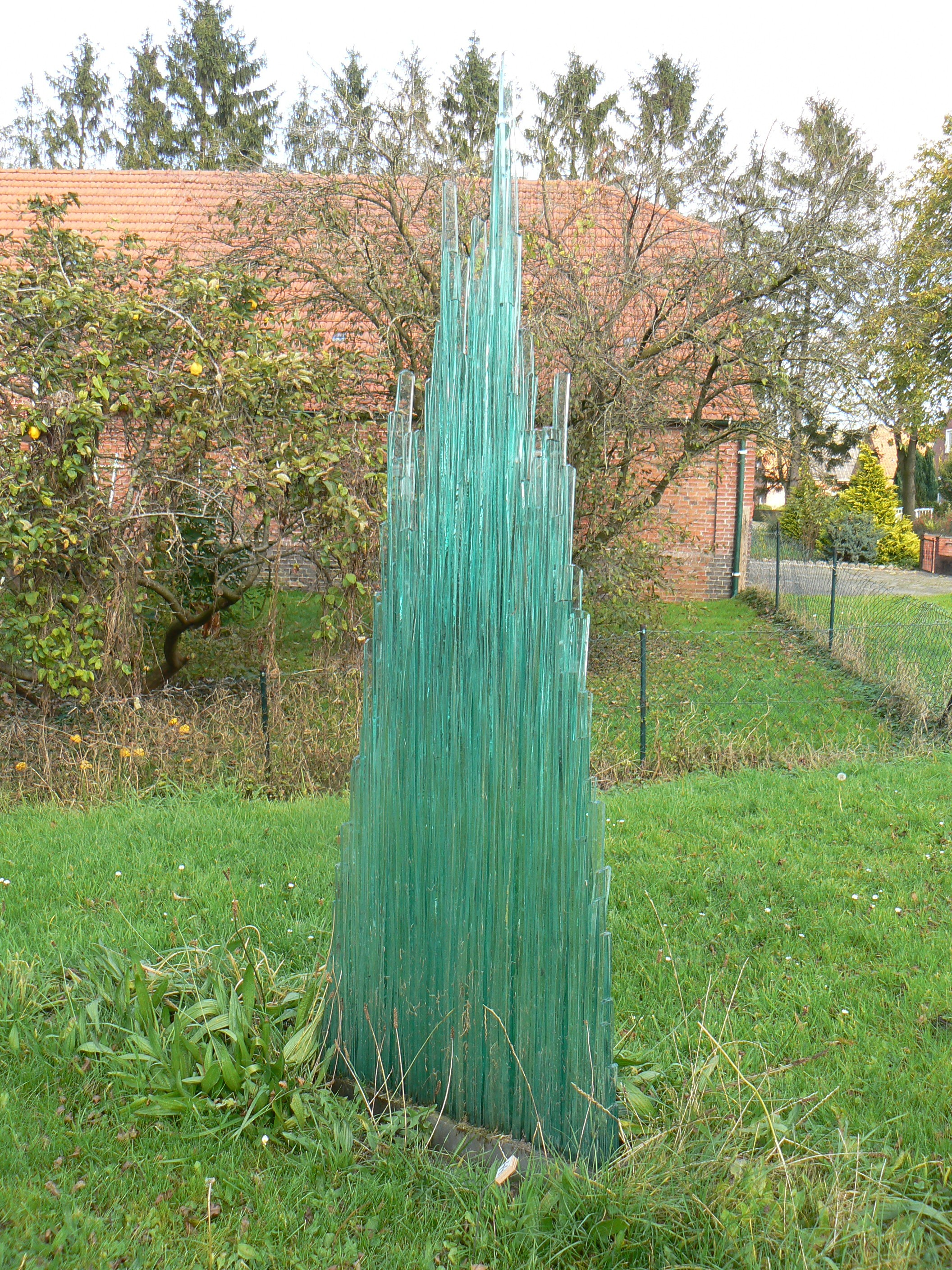 glass sculpture by Vincent & Gemma van Leeuwen in Coldam-Leer/Germany